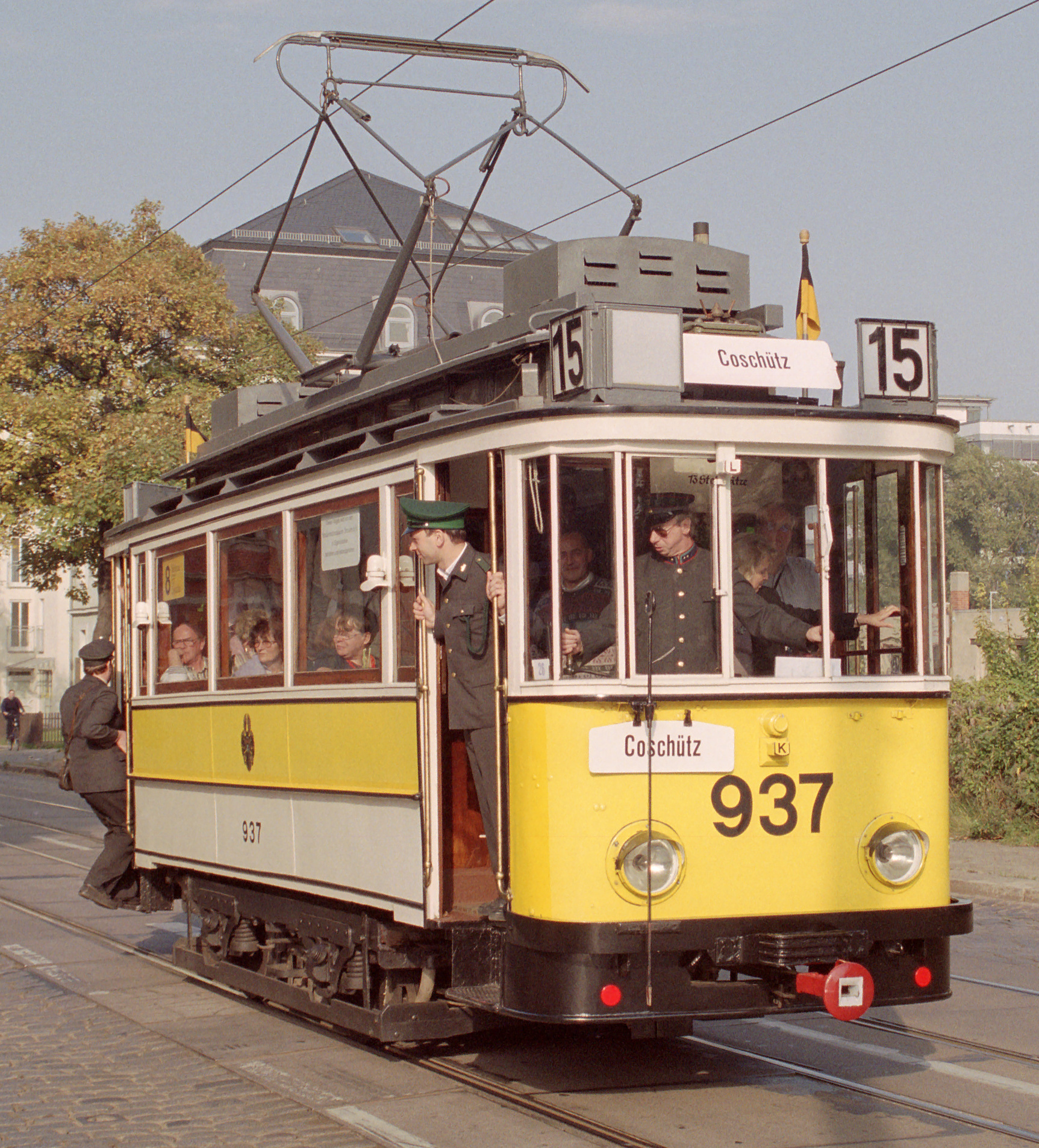 Historical tram, built 1927 in Dresden on a Union-chassis can be used on steep tracks (note the red coupling) own picture, taken in late summer 1998 in Dresden